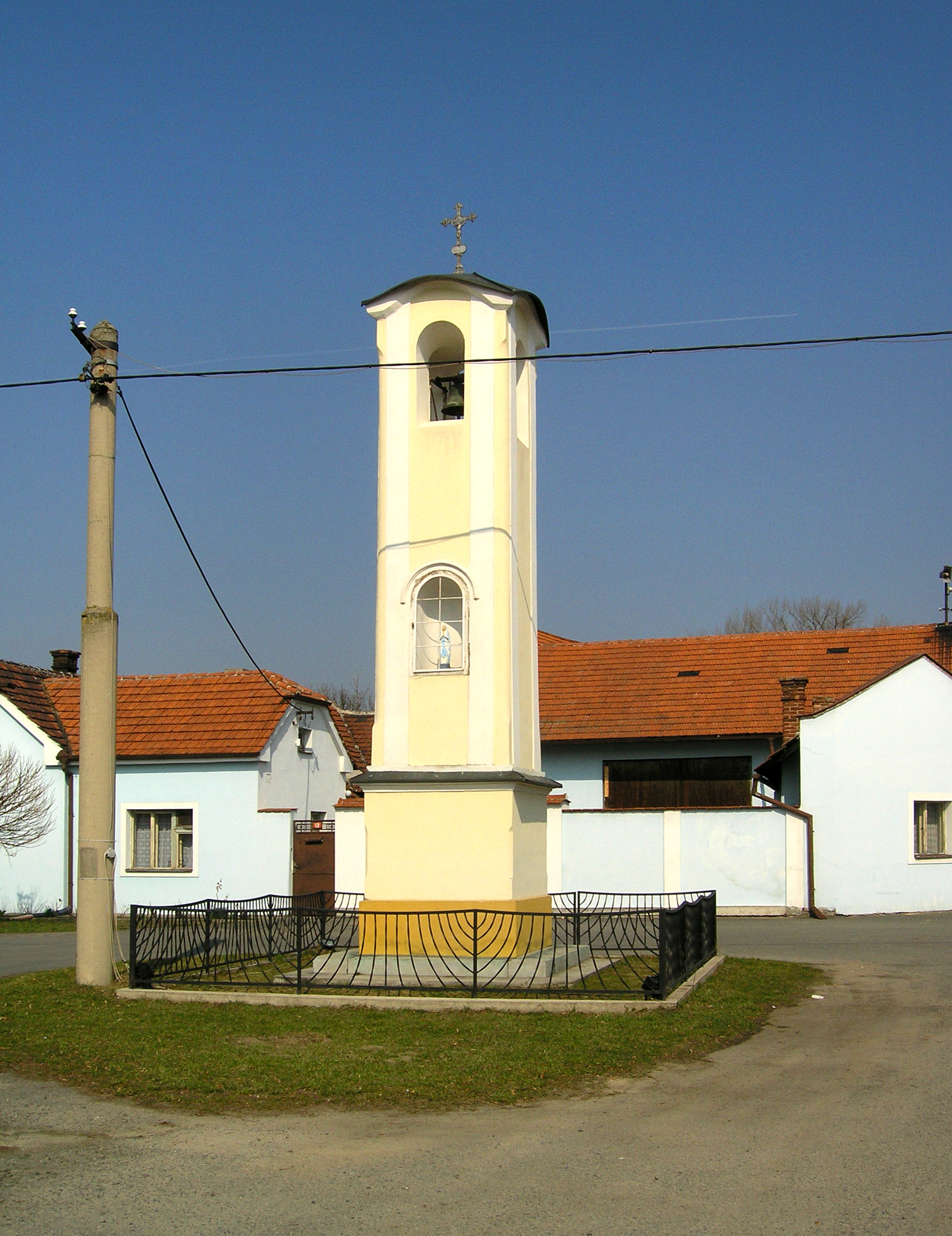 Bell tower in Konětopy village, Czech Republic